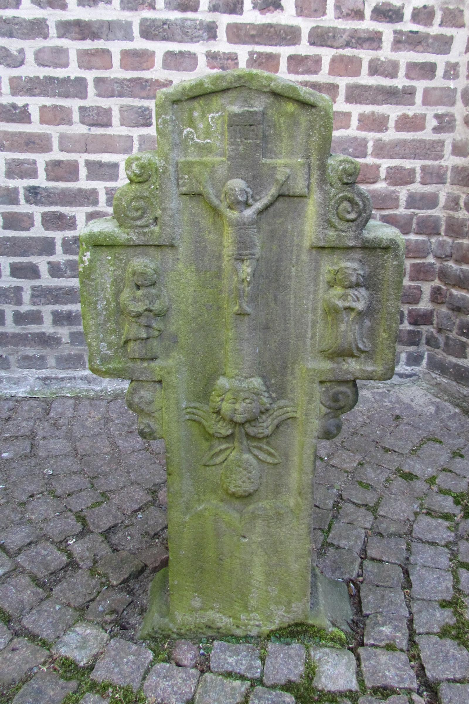 This is a photograph of an architectural monument.It is on the list of cultural monuments of Korschenbroich